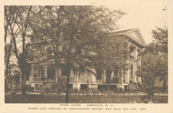 Stark House, Abbeville (Abbeville County, South Carolina) Postcard in Upstate Digital Collections